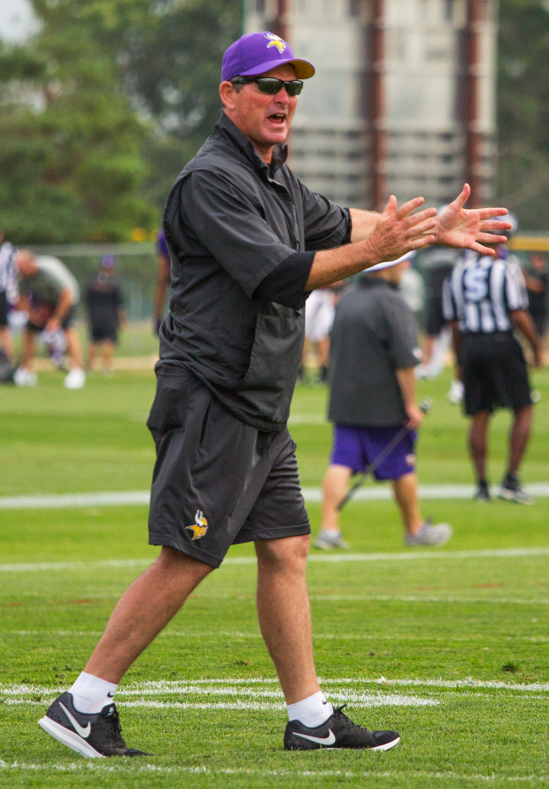 Minnesota Vikings head coach Mike Zimmer during 2014 training camp.